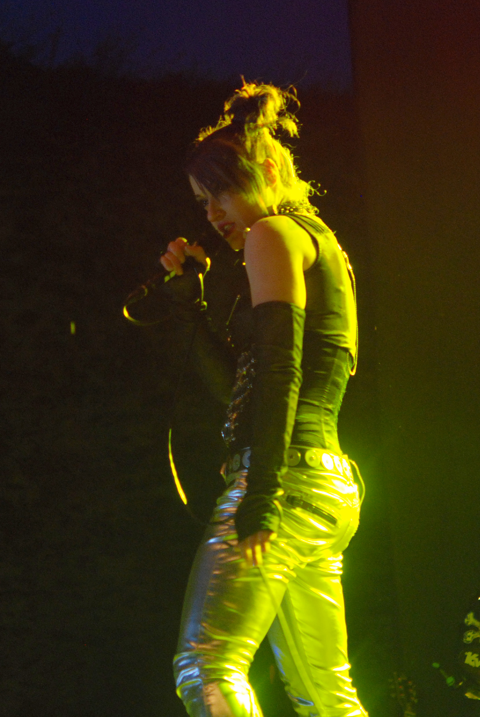 This photo was made in cooperation with CASTLE PARTY PRODUCTIONS in Bolków (webpage)